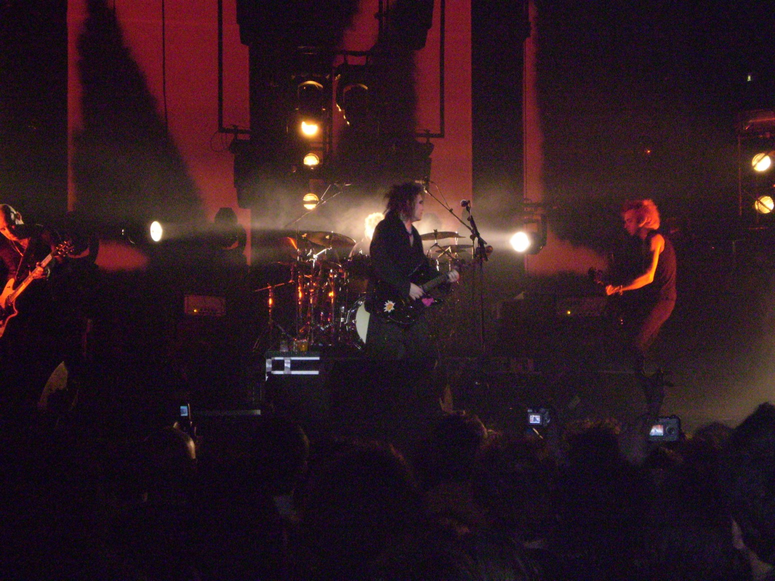 The Cure Live in Rome